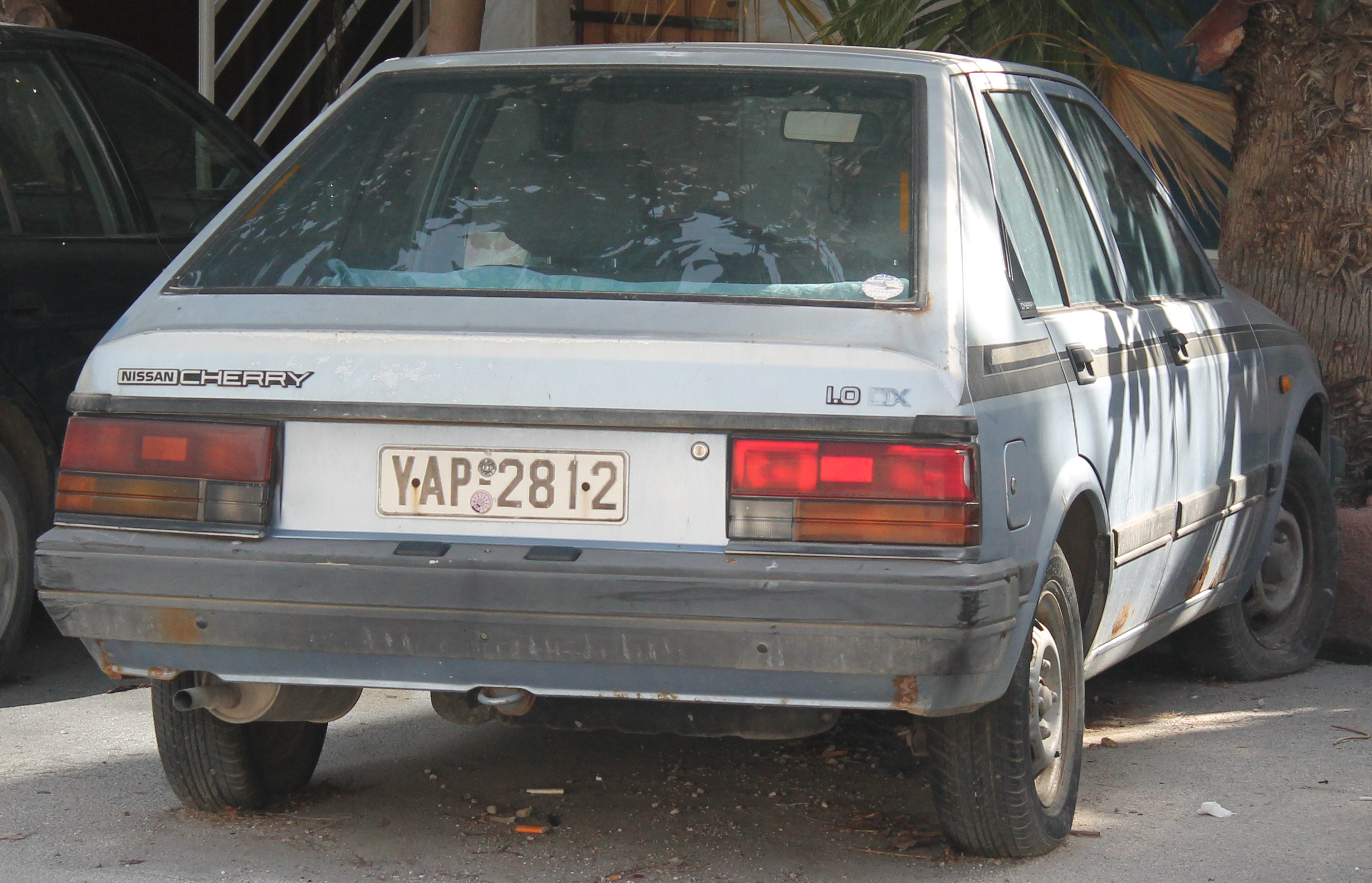 A nice survivor- an entry level model with a 988cc engine and lowest spec DX trim.